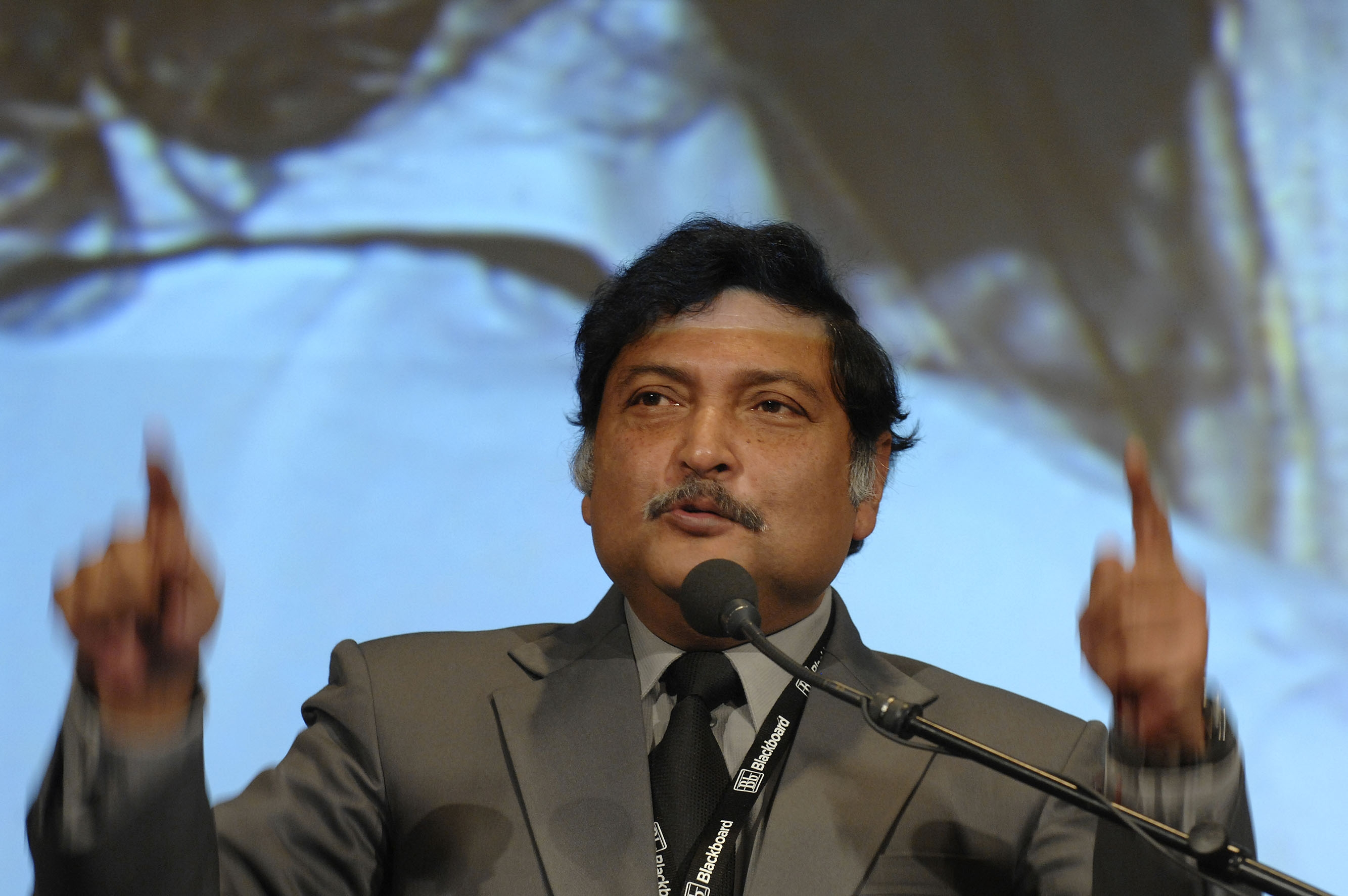 Online Educa Berlin 2007 - Opening Plenary, November 29, 2007, Sugata Mitra